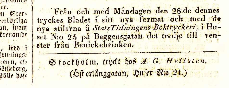 Announcing the shift from blackletter to Roman typography, in the lower right corner of page 4, Post- och Inrikes Tidningar